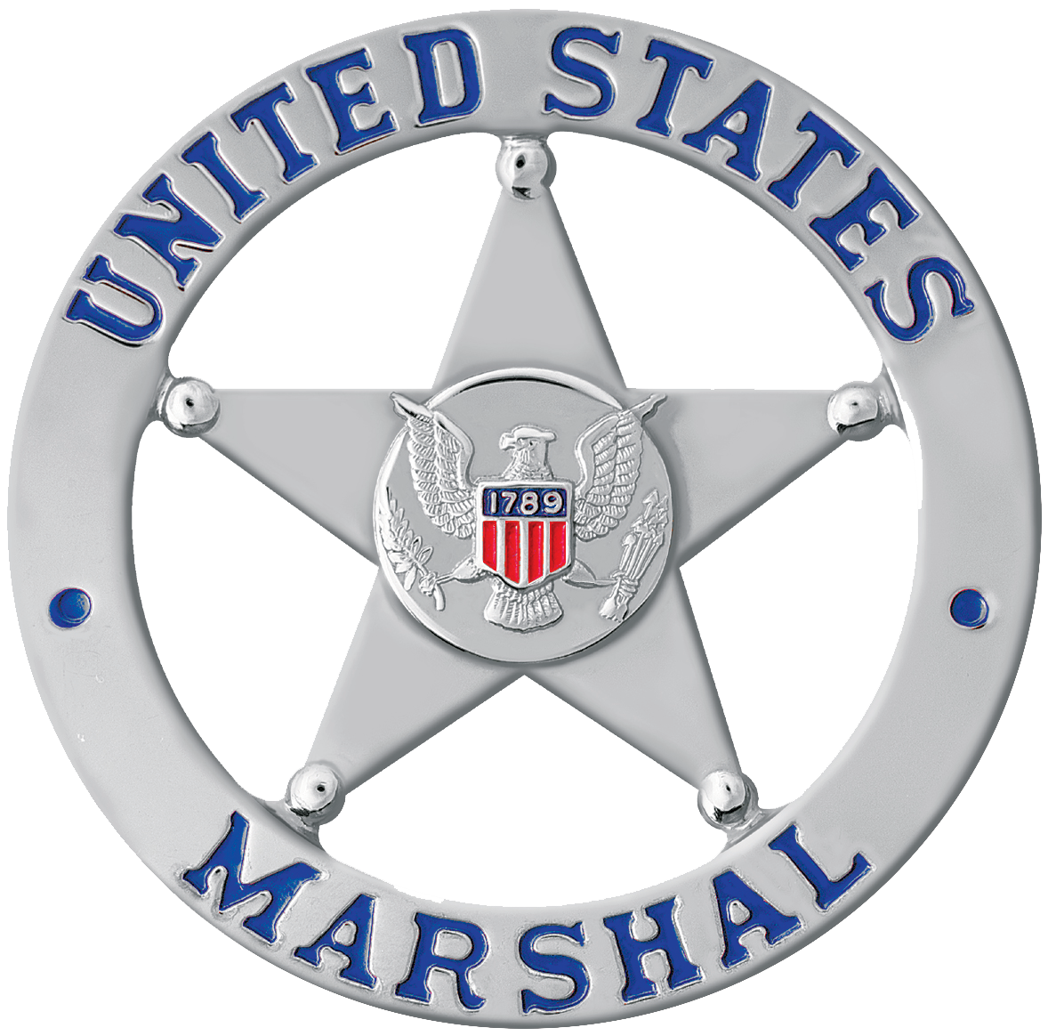 United States Marshal Silver Badge